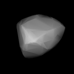 3D convex shape model of 1873 Agenor, computed using light curve inversion techniques. J. Hanuš, J. Ďurech, M. Brož, B. D. Warner (June 2011). "A study of asteroid pole-latitude distribution based on an extended set of shape models derived by the lightcurve inversion method". Astronomy and Astrophysics 530: A134. ISSN 0004-6361. arXiv